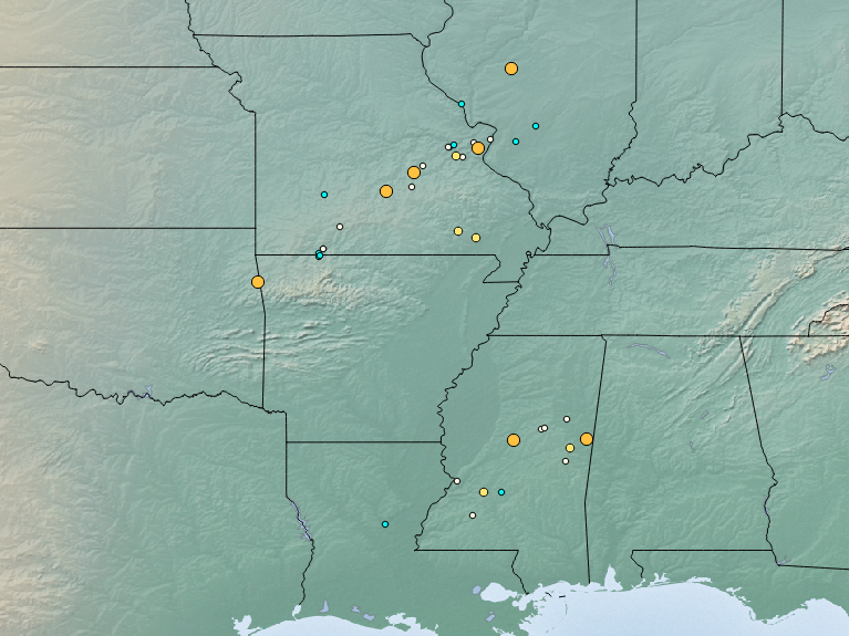 Map plotting the touchdown points of tornadoes during a tornado outbreak that impacted the Central Mississippi Valley from December 30, 2010 to January 1, 2011. Plots and image created using QGIS with data from the National Oceanic and Atmospheric Administration.